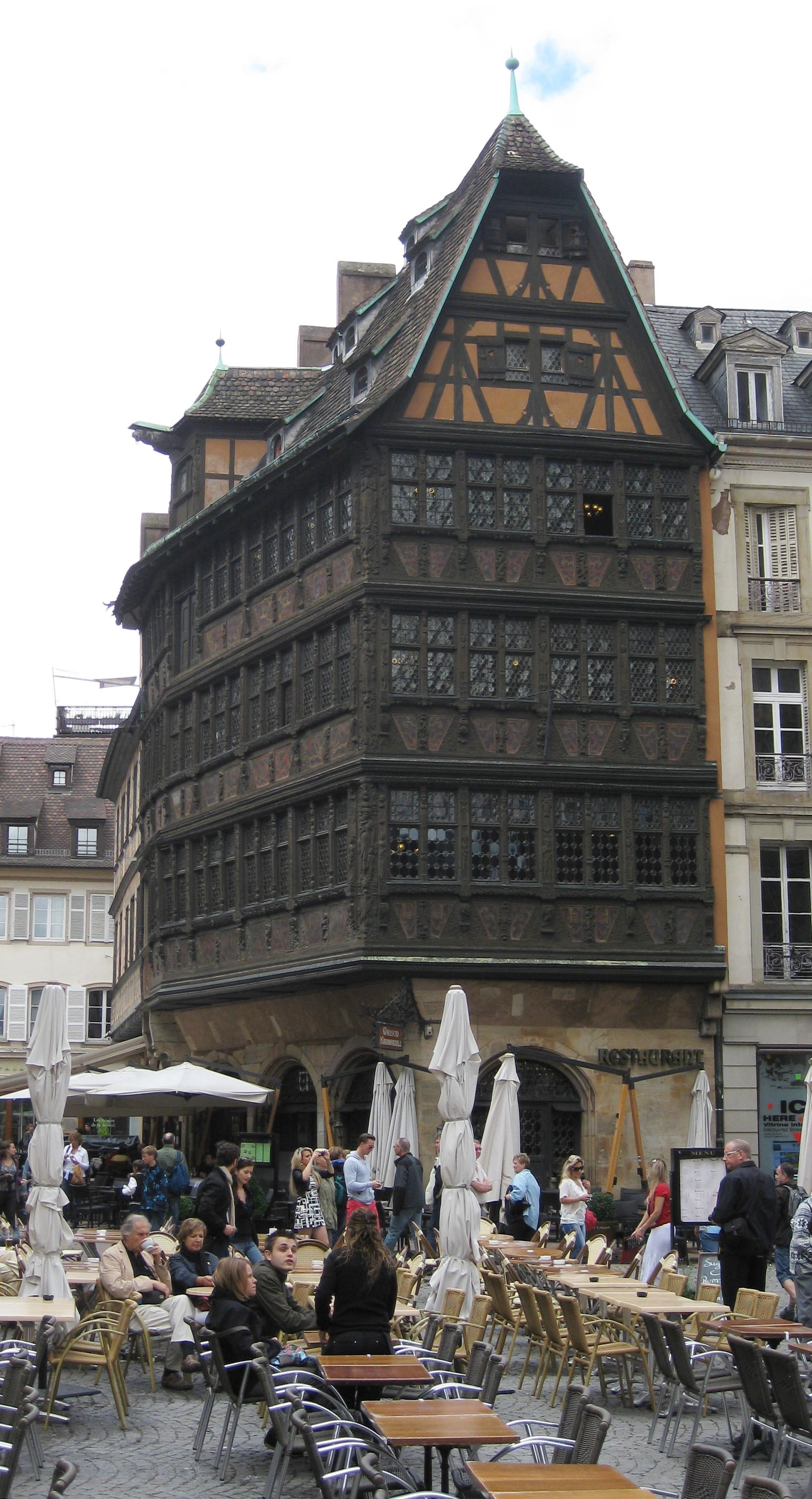 France, Alsace, Strasbourg: Kammerzell house. Historical monument